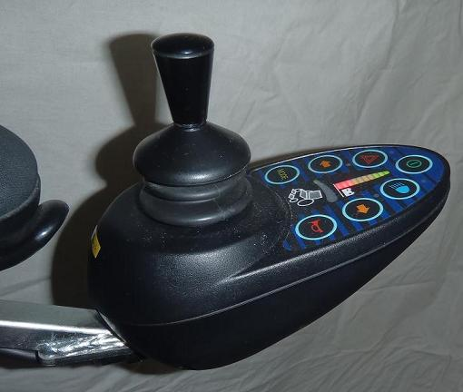 Controller of electric-powered wheelchair Belize.